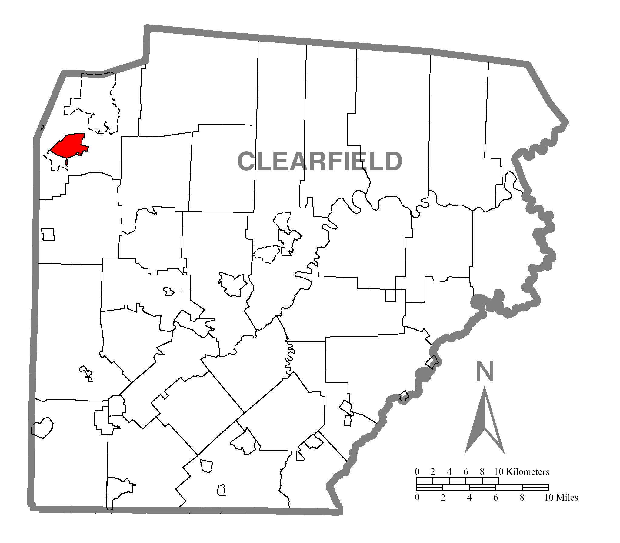 A map of Clearfield County showing Dubois, Pennsylvania (alternate) highlighted on the map.